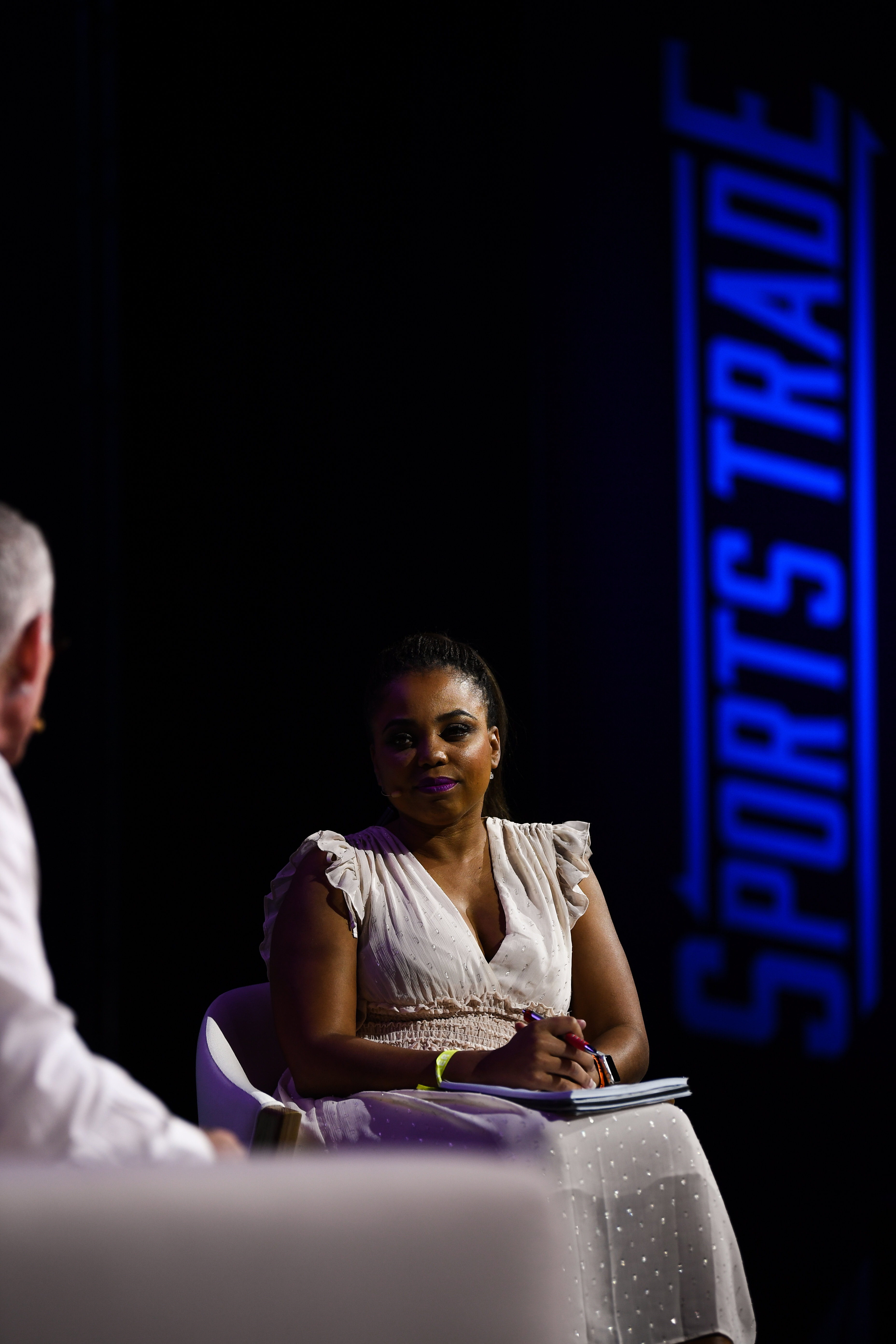 6 November 2018; Jemele Hill, Staff Writer, Atlantic Media, on SportsTrade Stage during the opening day of Web Summit 2018 at the Altice Arena in Lisbon, Portugal. Photo by Stephen McCarthy/Web Summit via Sportsfile